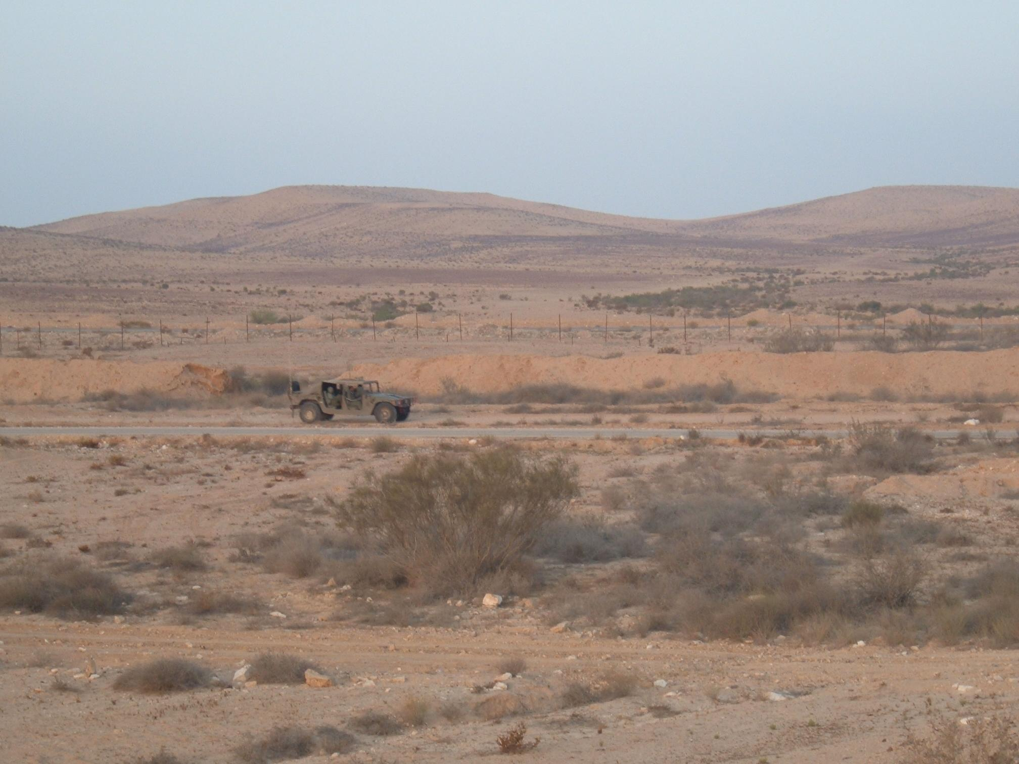 Israeli Hummer on the Israel-Egypt border, near Nitzana